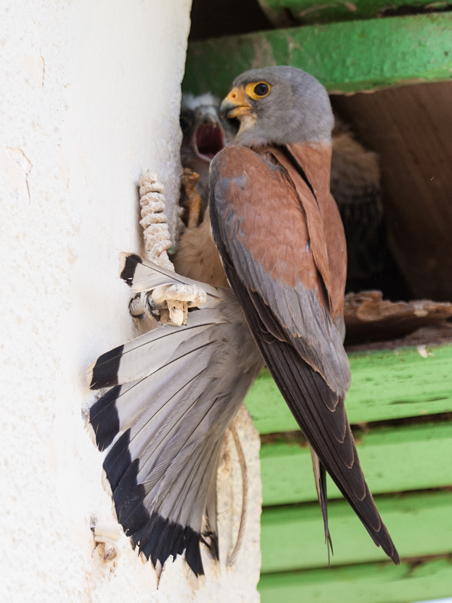 Lesser kestrel (falco naumanni) chicks and their parent. Lesser kestrel's distinguishable colors are clearly visible here.